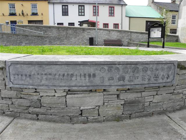 The 20 Ogham characters on an Art Bench, a limestone bench at Dave Gallaher Park in Ramelton, County Donegal, Ireland.